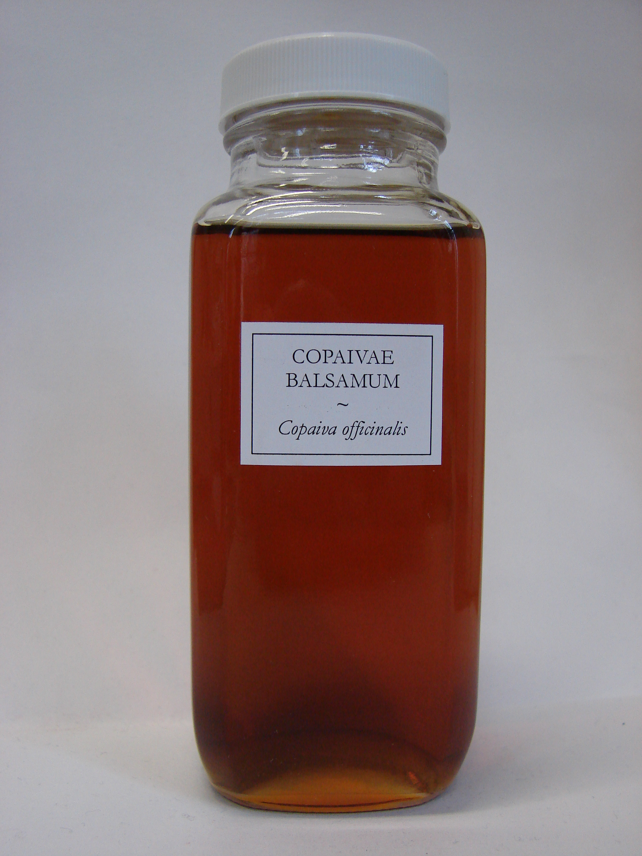 Copaivae balsamum, Copaiva officinalis